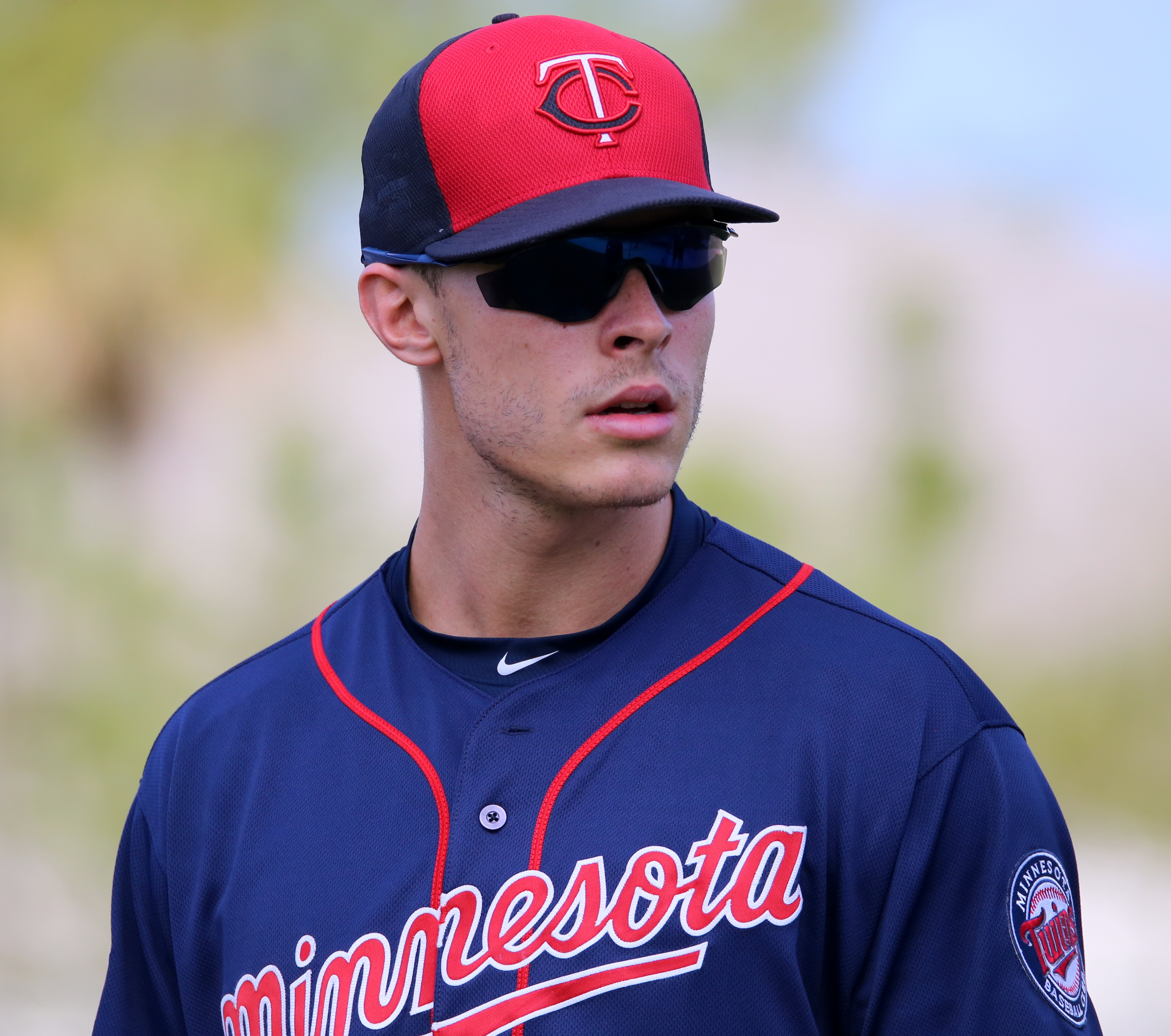 Max Kepler looks on during infielder drills at Twins #SpringTraining camp.